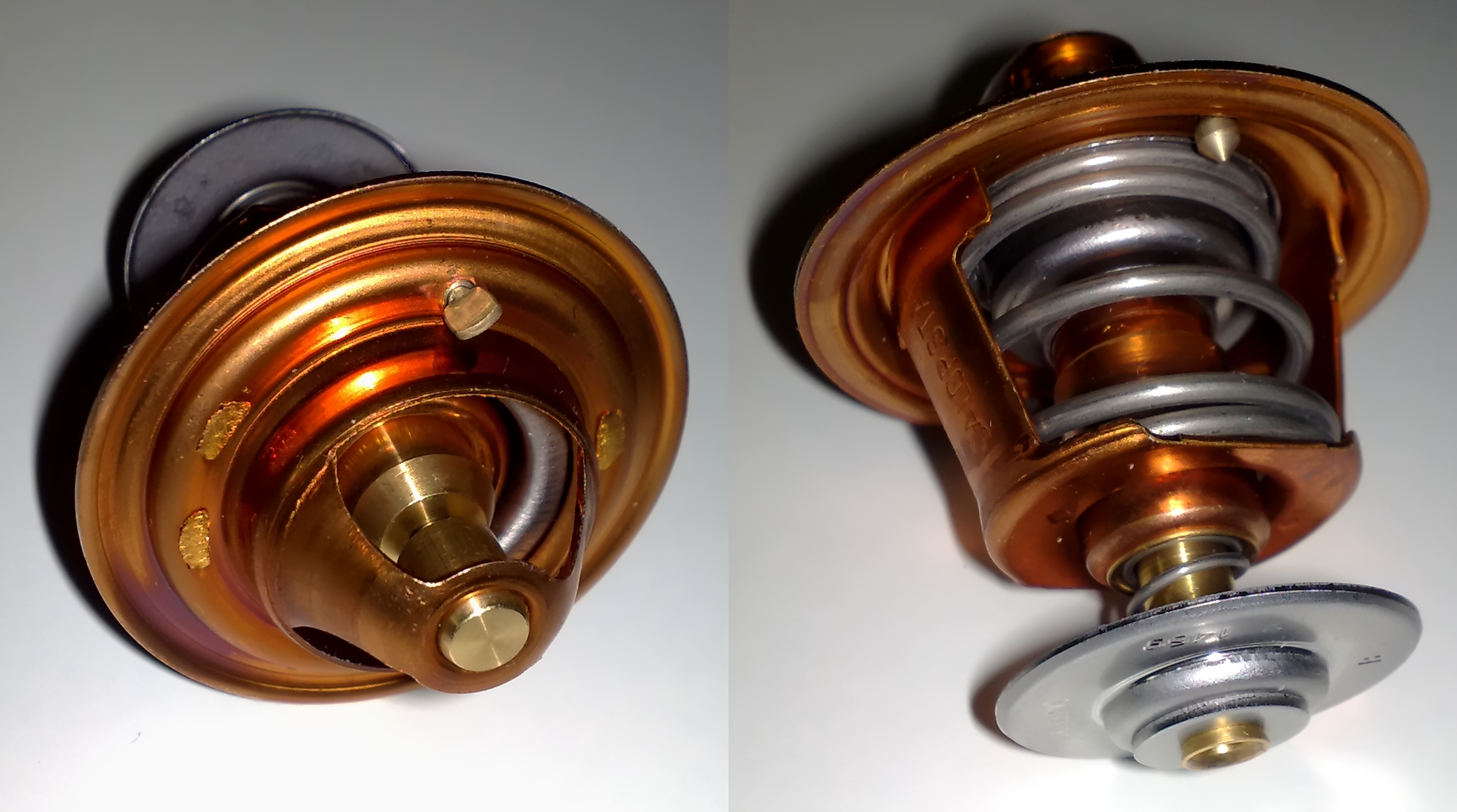 88°C (361°K, 190°F) Thermostat, that fits in Toyota A, E, S and C engines.